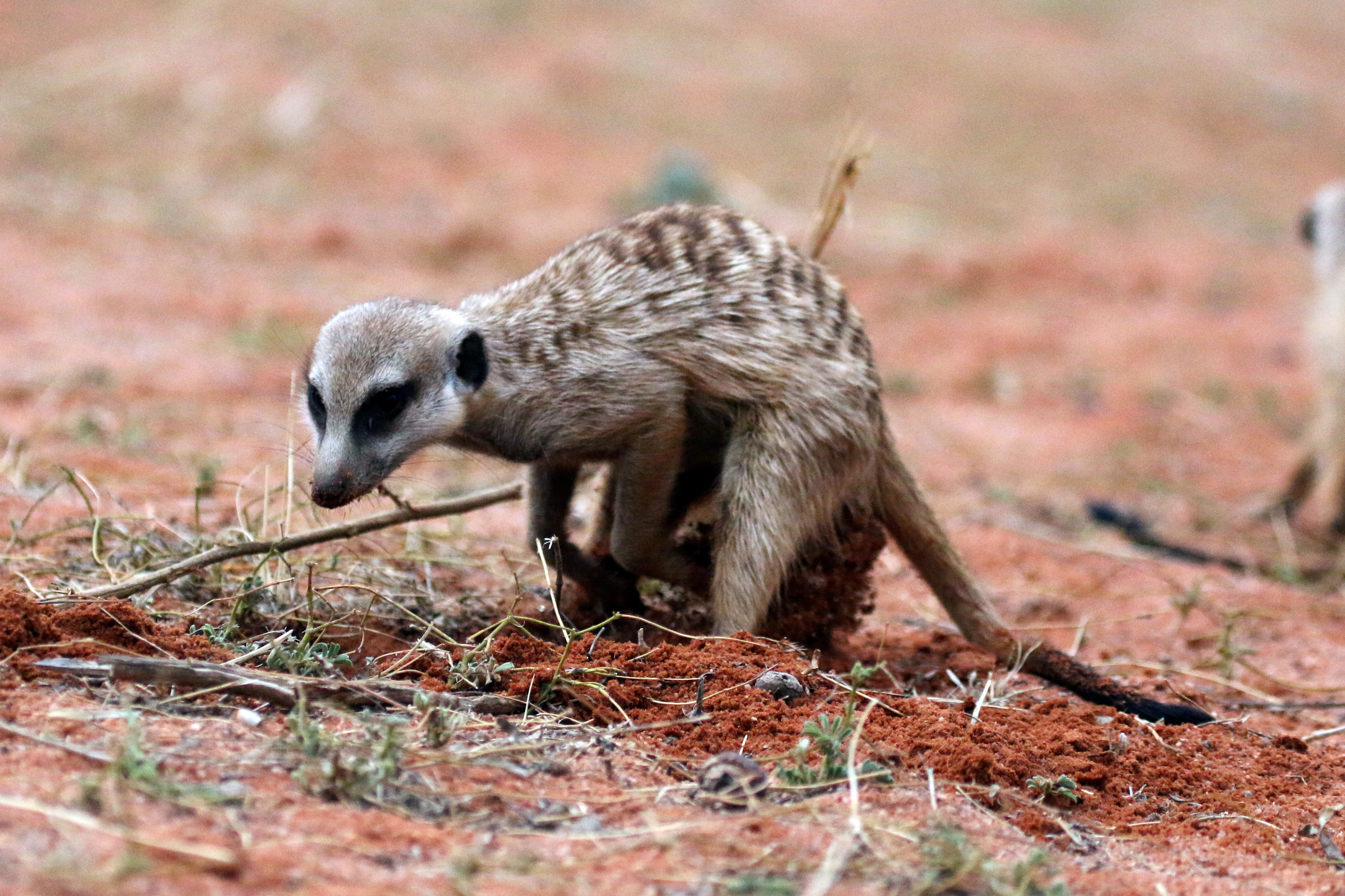 Meerkat (Suricata suricatta), Tswalu Kalahari Reserve, South Africa